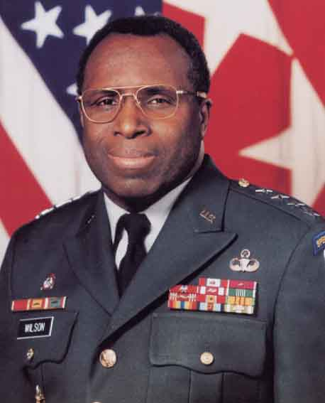 Johnnie E. Wilson from [1]